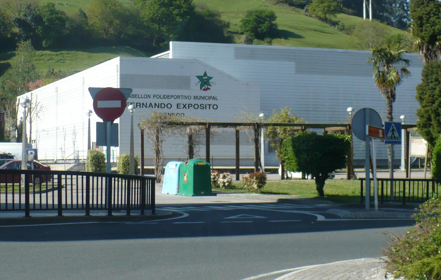 Pabellón Municipal Fernando Expósito, in Renedo de Piélagos (Cantabria), home to the Pas Piélagos basket team